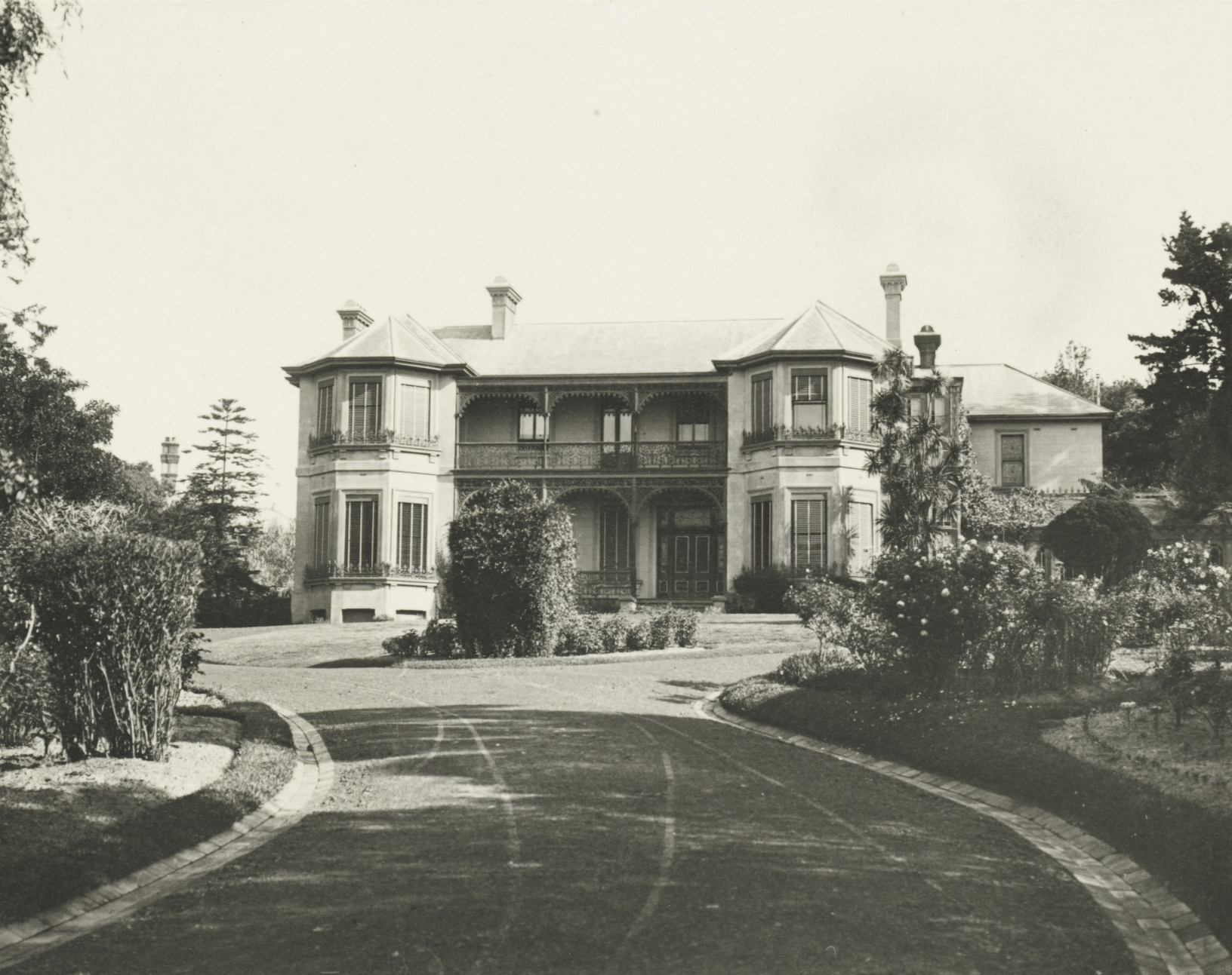 "Merioola" house on Edgecliff Road, Woollahra built in 1859 by John Edye Manning, since demolished.